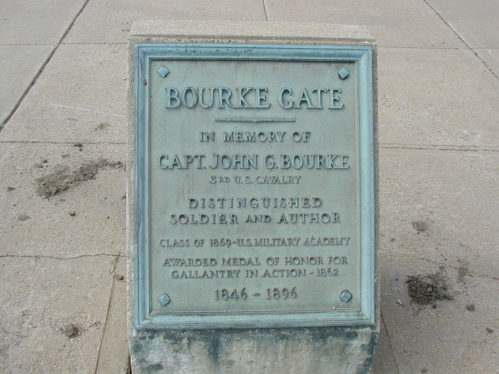 Commemorative plaque of Bourke Gate entrance to Fort Omaha, Omaha Nebraska